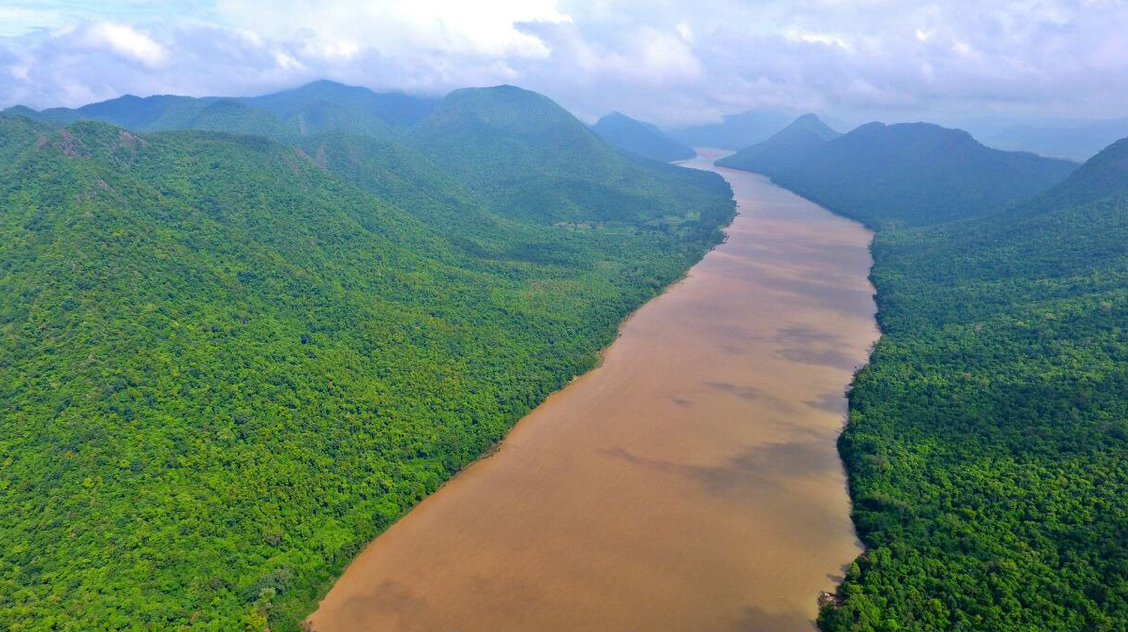 Tweet Text: Sharing a breathtaking view of majestic #Mahanadi meandering through #Satkosia gorge bringing joy & hope to #Odisha …